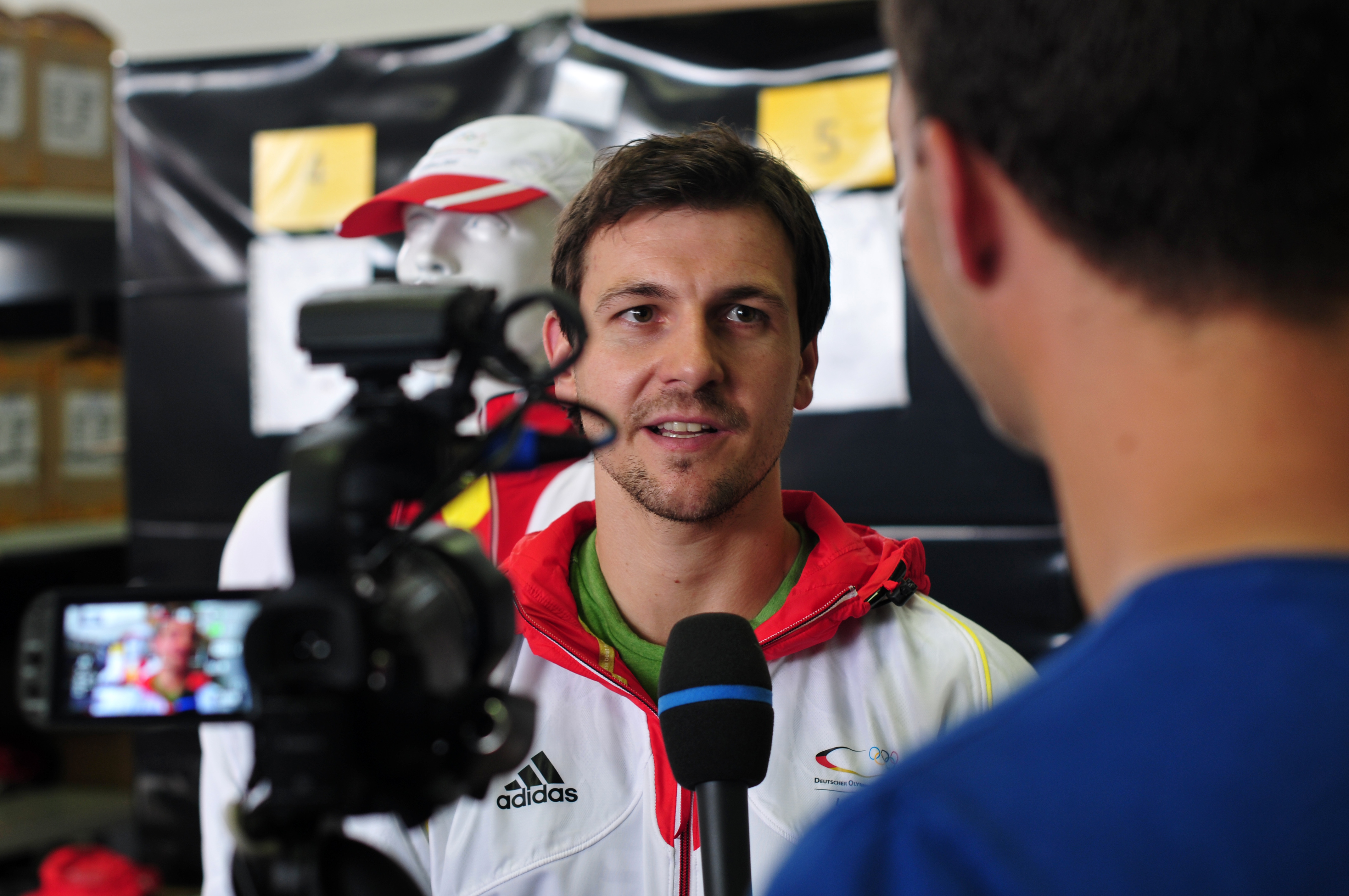 Timo Boll, professional table tennis player; Outfitting the Olympic teams of Germany 2012 Einkleidung der deutschen Olympiamannschaft am 28. Juni 2012 in Mainz - Olympische Sommerspiele 2012 Cirdan Marcus Cyron Olaf Kosinsky Ralf Roletschek Sven Teschke